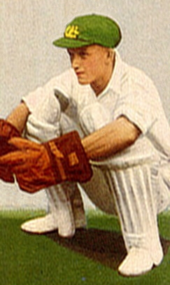 Picture of Australian cricketer Don Tallon taken before his playing retirement in 1954. Image is pre-1955 and therefore is in the public domain.